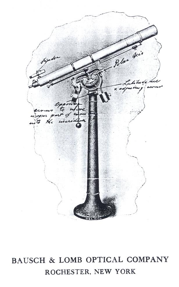 1921 Bausch & Lomb Telescope